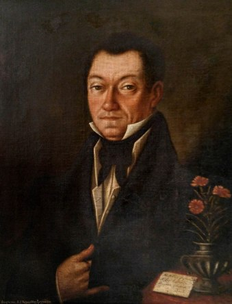 Portrait of Konstantinos Dragonas